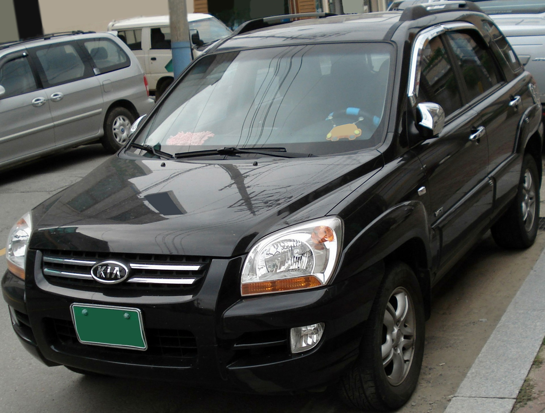 Kia Sportage